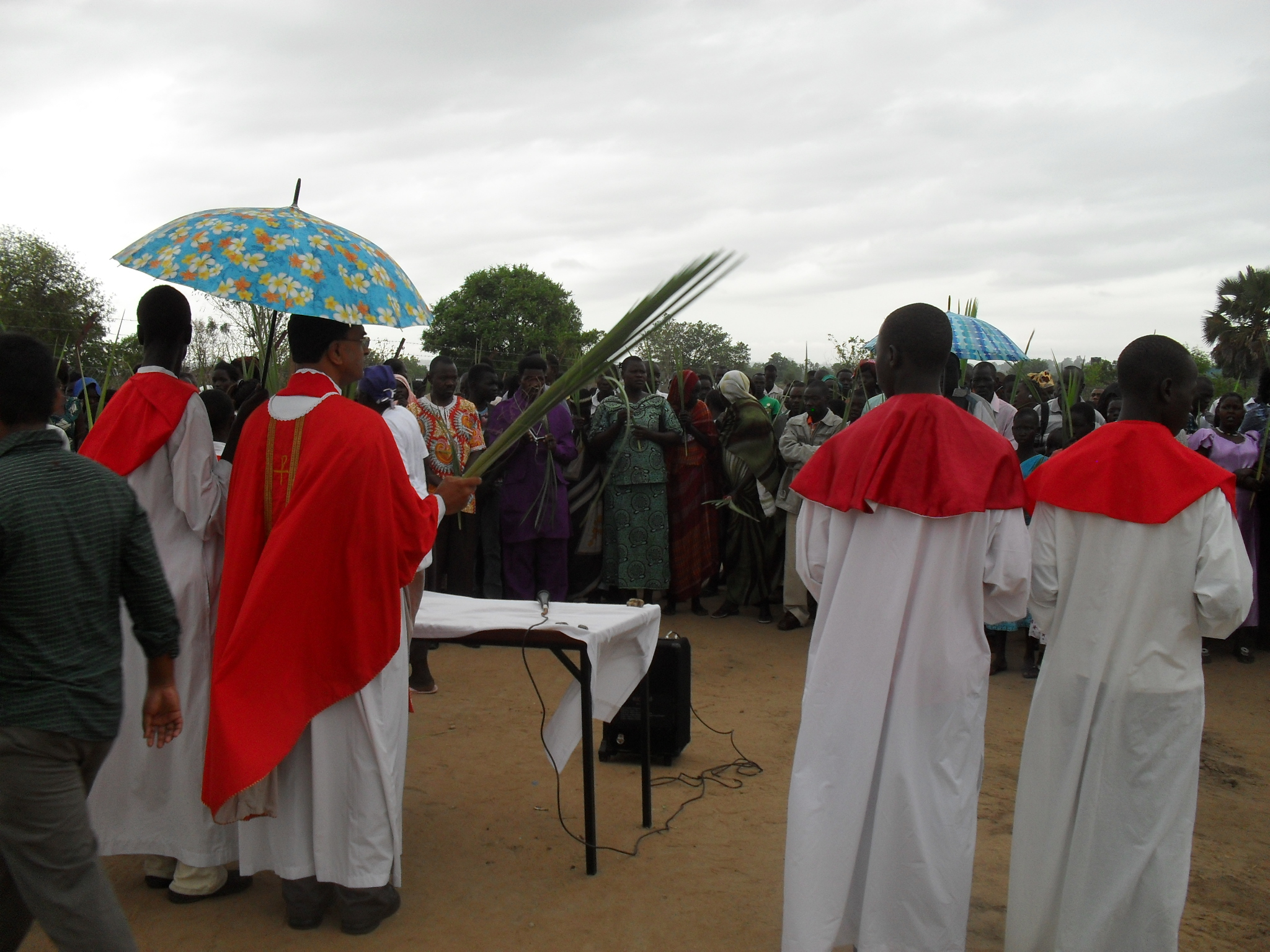 Palm Sunday celebrations in the Salesian parish in Gumbo at the outskirts of Juba, South Sudan